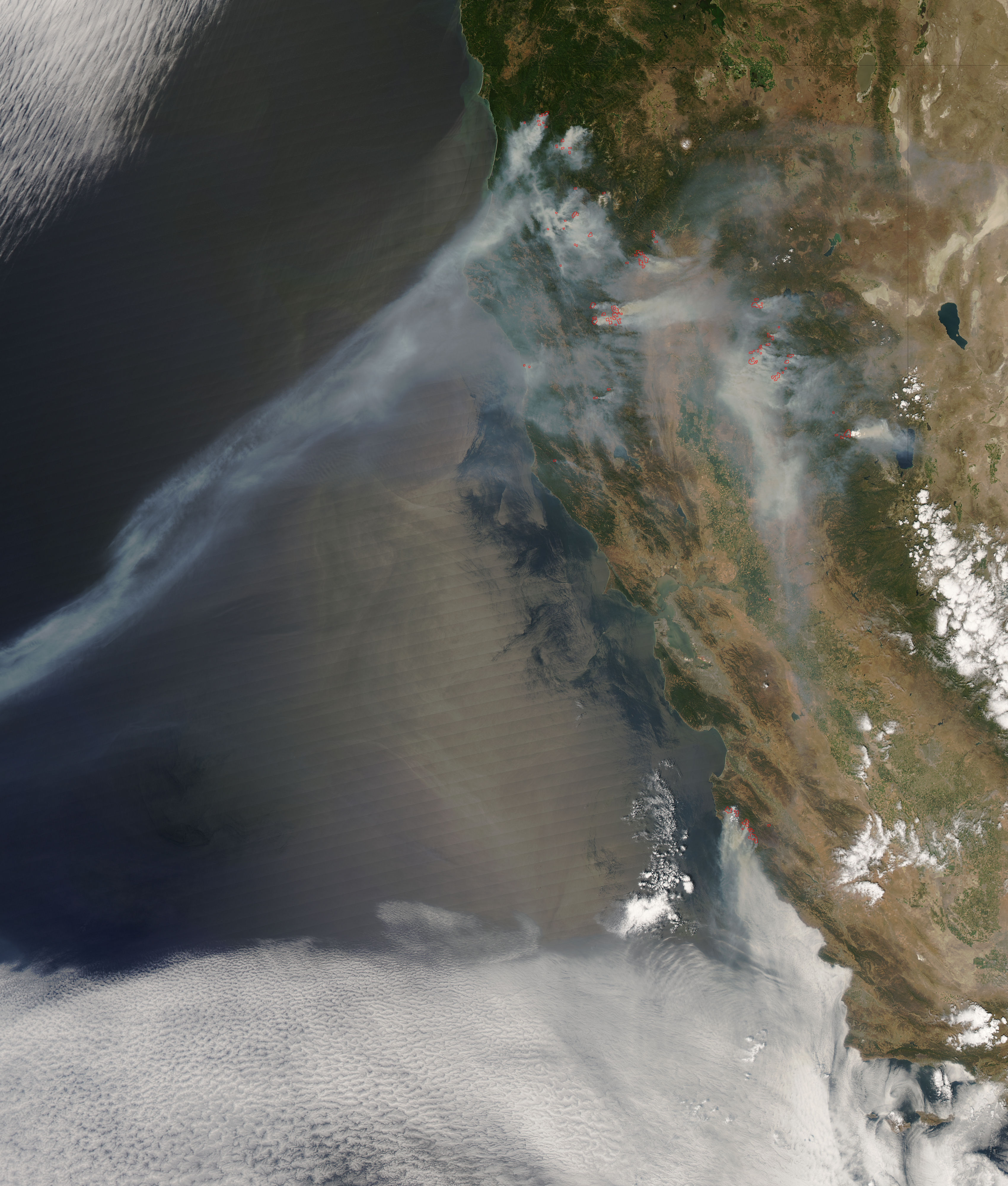 Satellite image of the Summer 2008 California wildfires, on July 9, 2008. Around 3,593 wildfires ignited during the 4-month-long duration of this event, during which 1,161,035 acres (469,854 ha) of land was burned.